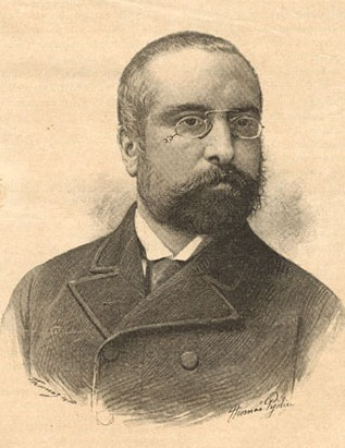 Arturo Campión's portrait (taken from La tradició catalana, n°1, April 1893)